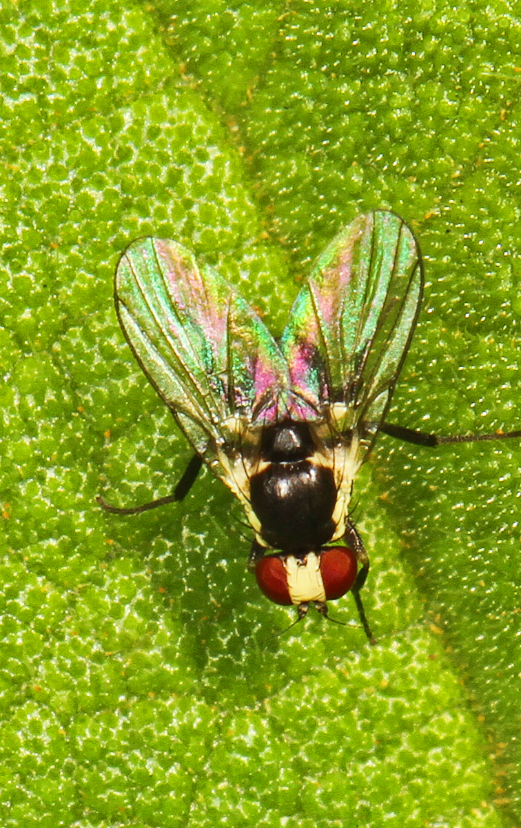 Leaf Miner Fly - Calycomyza species, Fern Forest Nature Center, Coconut Creek, Florida.